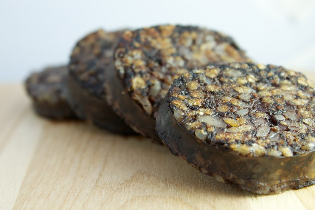 Fried slices of Burgalese black pudding